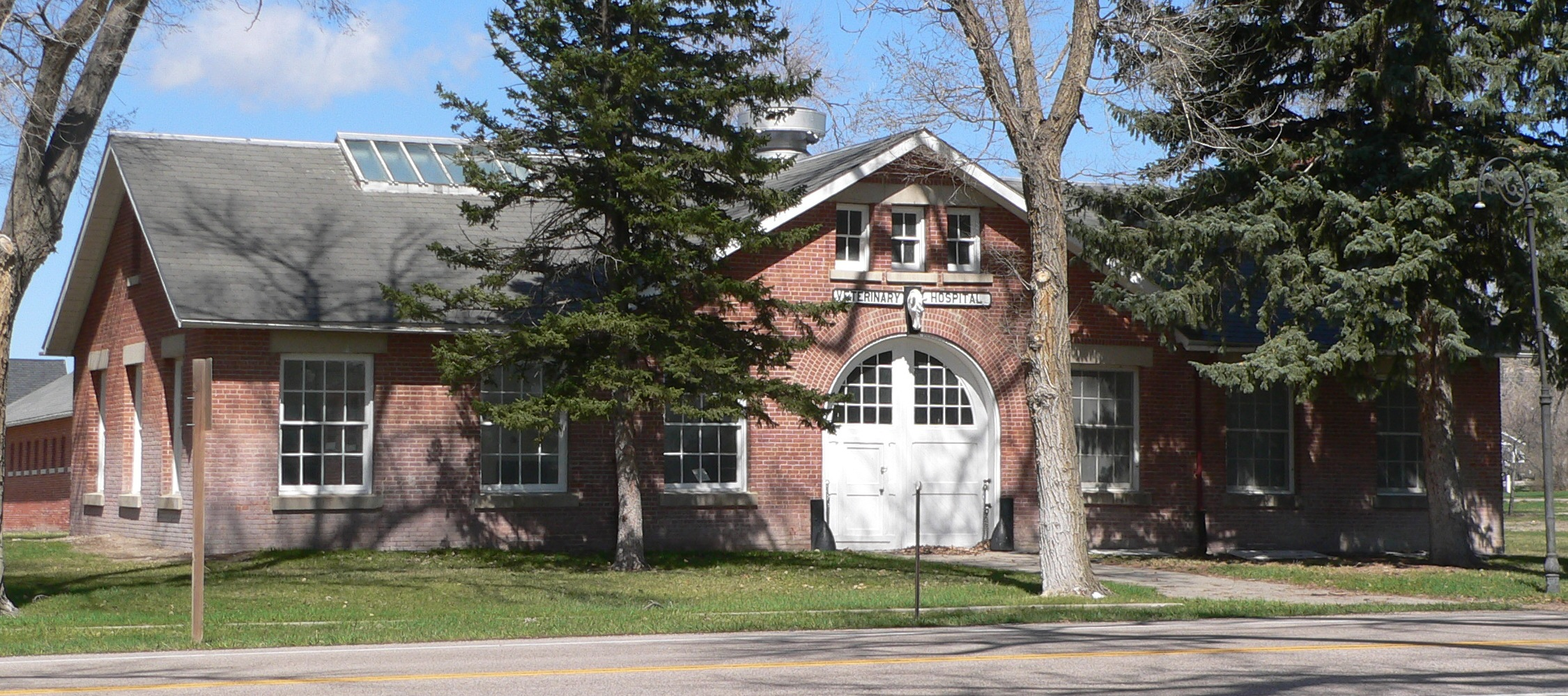 1909 veterinary hospital at Fort Robinson near Crawford, Nebraska.